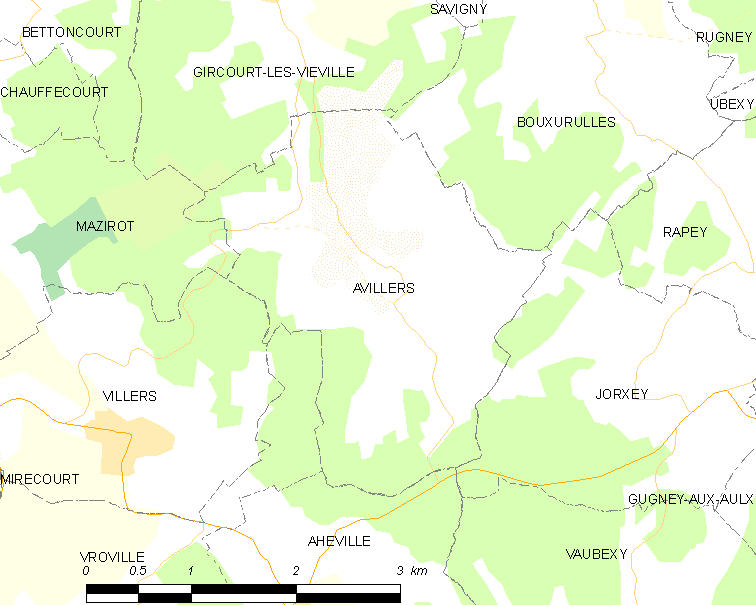 Map of French municipality Avillers